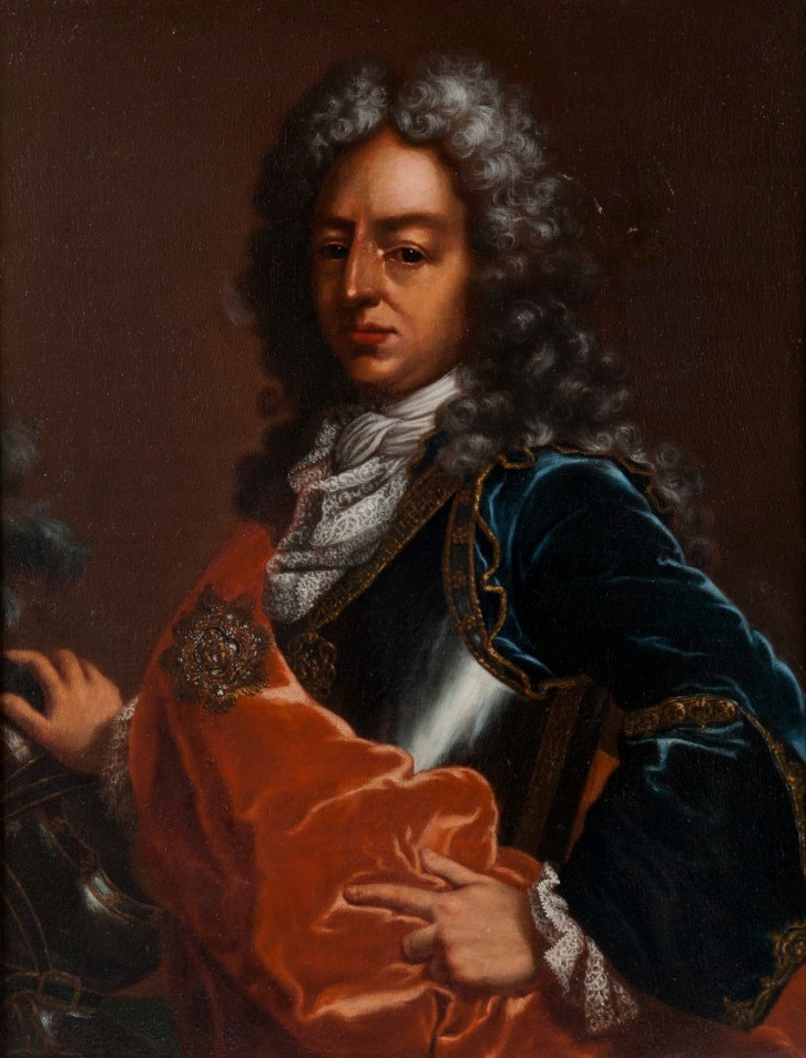 Portrait of Emmanuel Philibert, Prince of Carignano (1628-1709) Website: [1]